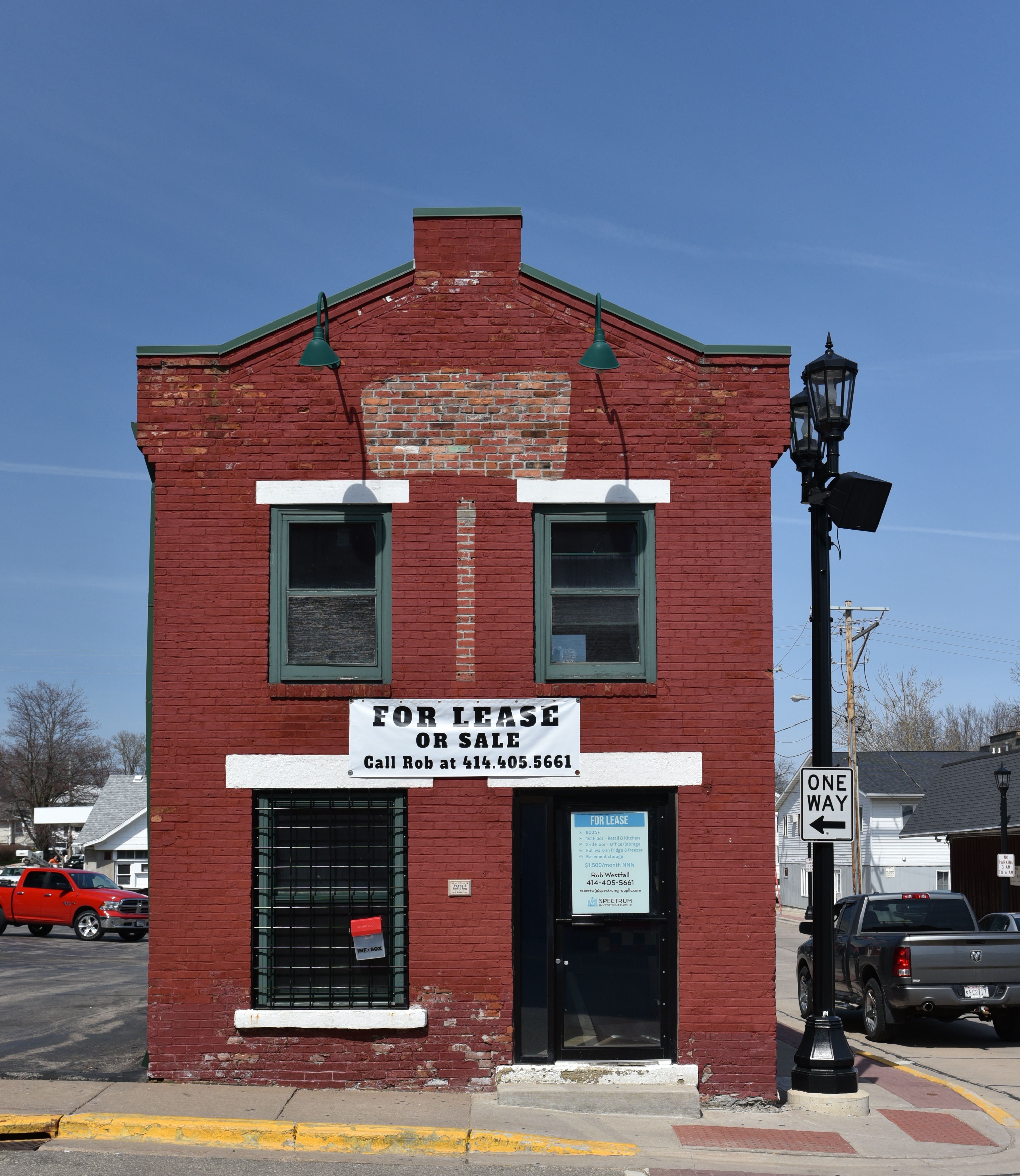 Main Street Commercial Historic District